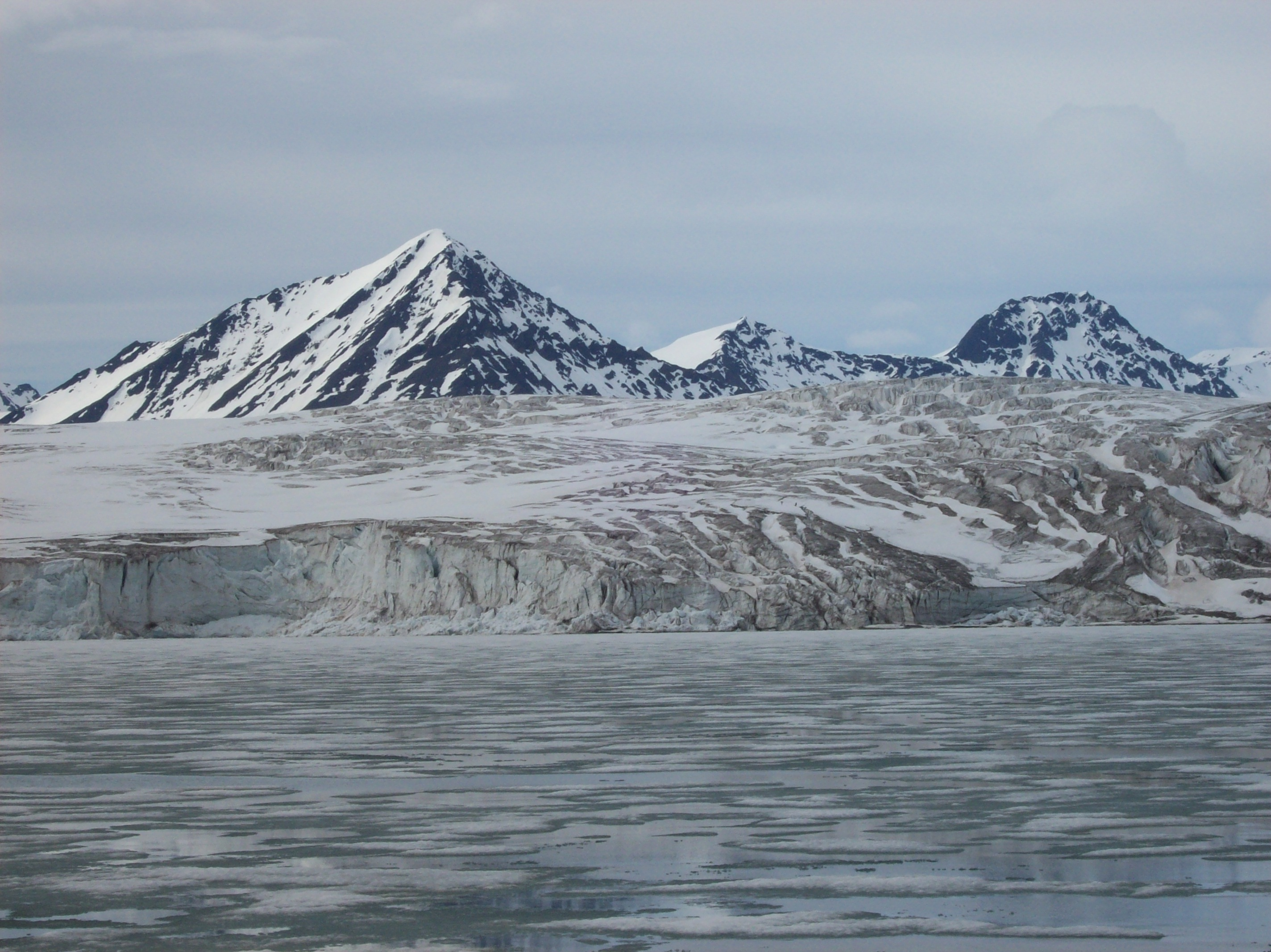 Esmarksbreen, Svalbard c 2008, Niels Elgaard Larsen